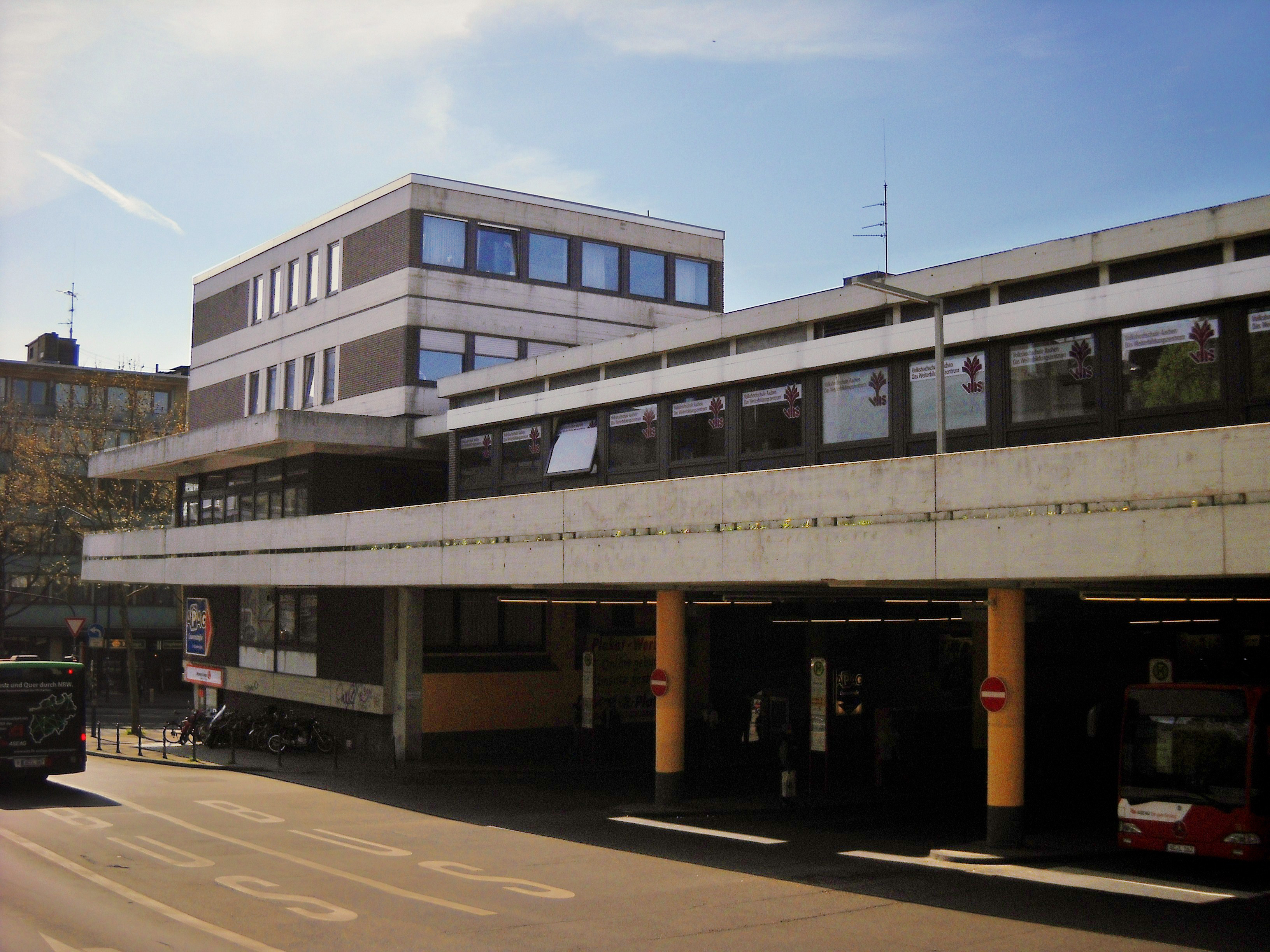 "Aachen Bushof" bus station, view from northeast.